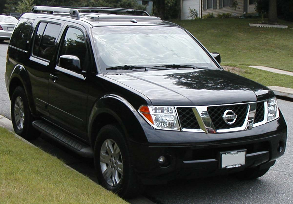 2005-2006 Nissan Pathfinder photographed in USA.